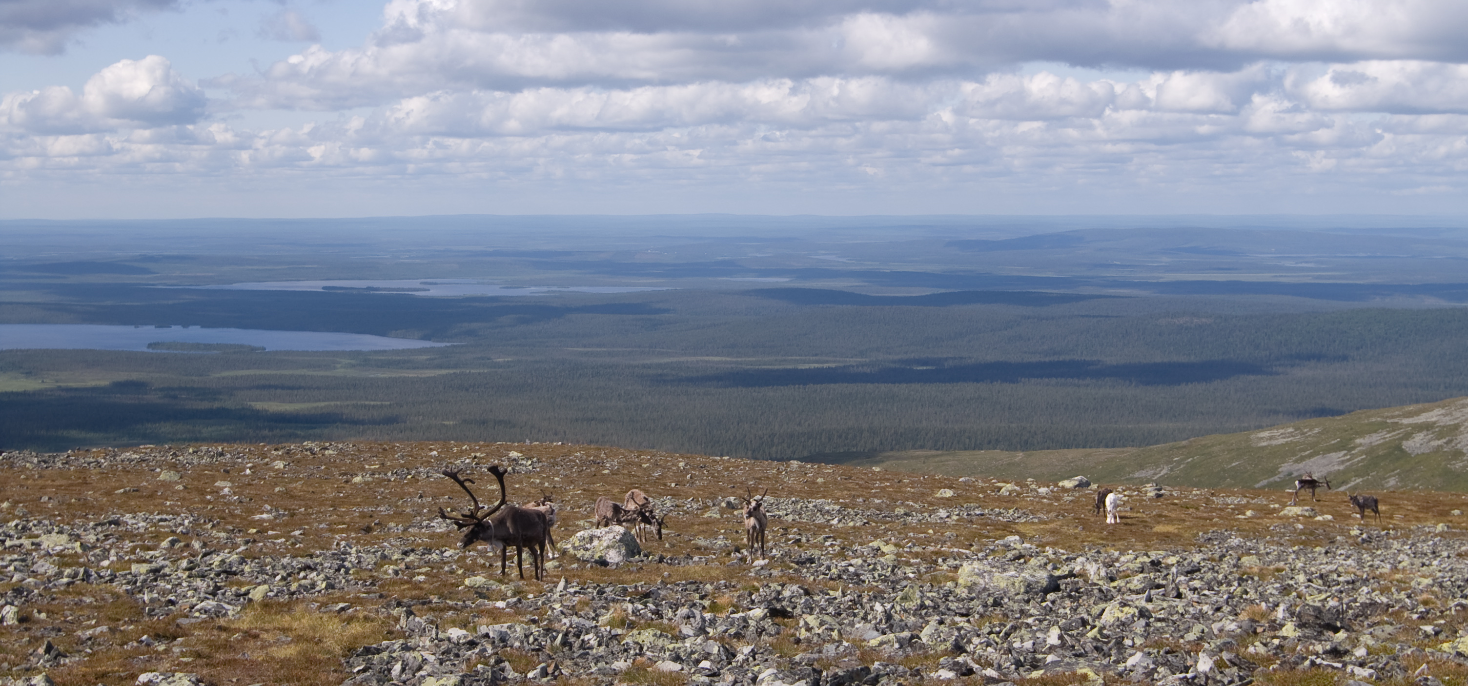 Reindeers of the Taivaskero.